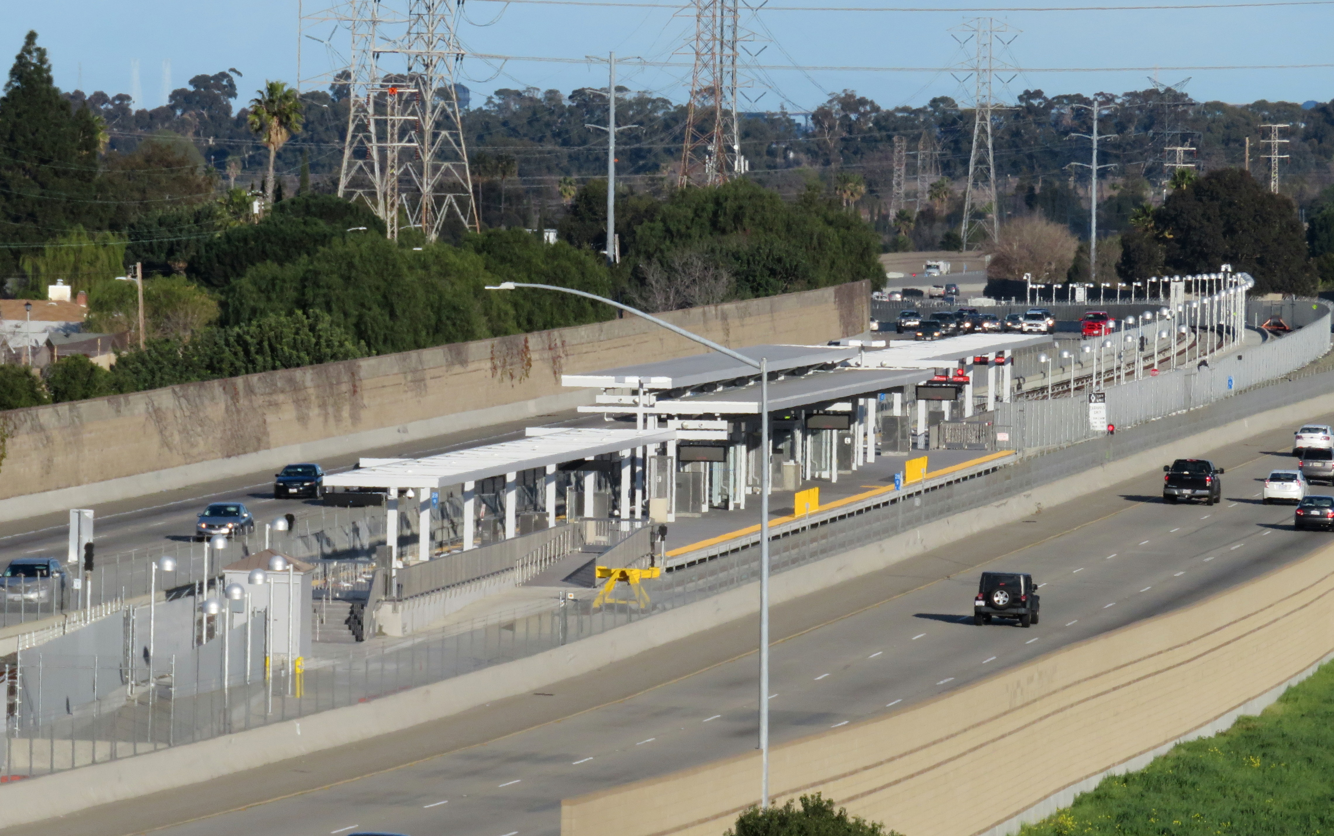 eBART transfer platform under construction in February 2018